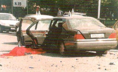 Attempted assassination of the Macedonian president Kiro Gligorov, 03.10.1995